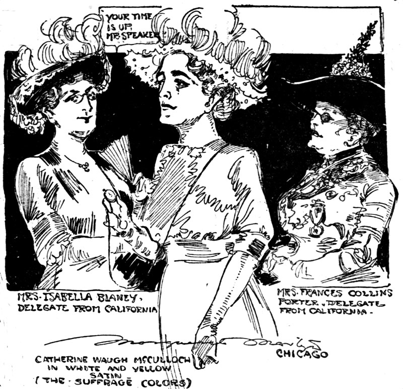 First women delegates to a Republican National Convention (in 1912) were Isabella Blaney and Frances Collins Porter from California and Catherine Waugh McCullough of Illinois]. Mrs. McCulloch wore "white and yellow satin (the suffrage colors).